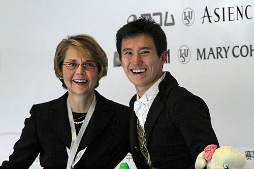 Patrick Chan during the 2010 Grand Prix Final with his coach Christy Krall